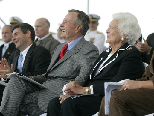 Former President George H. W. Bush and First Lady Barbara Bush react during remarks by President George W. Bush during the Christening Ceremony for the George H.W. Bush (CVN 77) in Newport News, Virginia, Saturday, Oct. 7, 2006. White House photo by Eric Draper